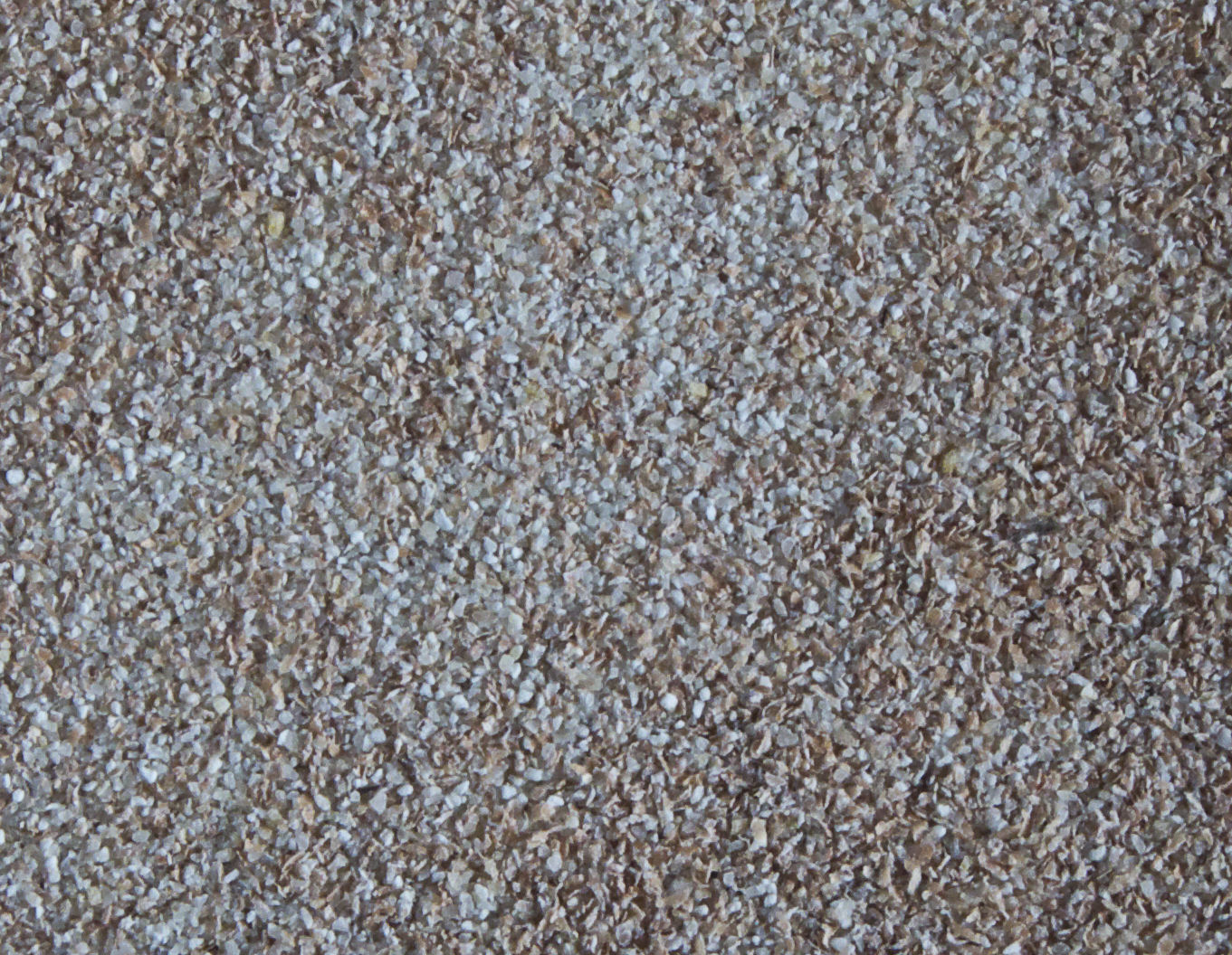 Wholegrain wheat semolina sifted through 0.5 mm sieve